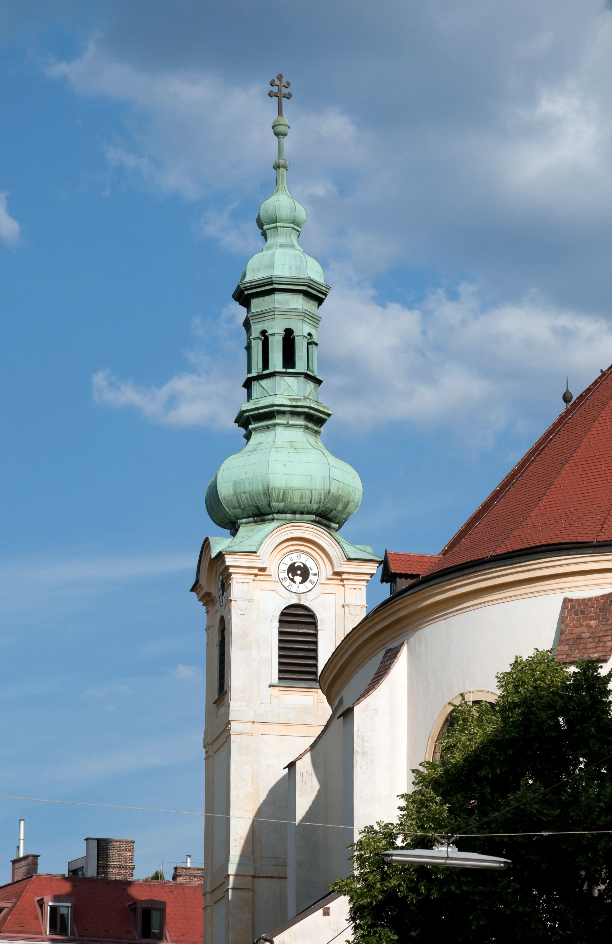 The belfry of Servite Church in Vienna.